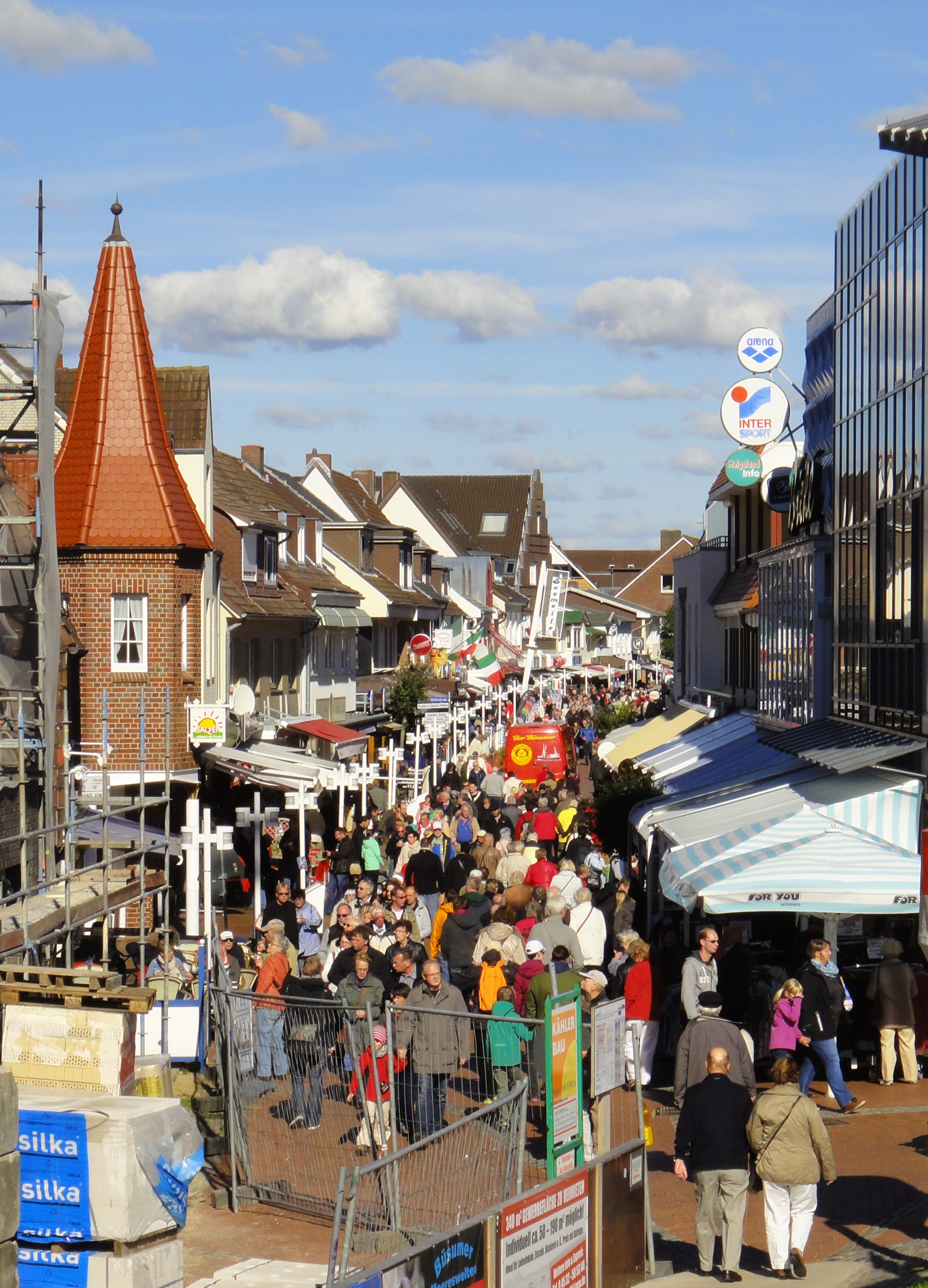 Büsum high street, German North Sea Coast, in autumn.